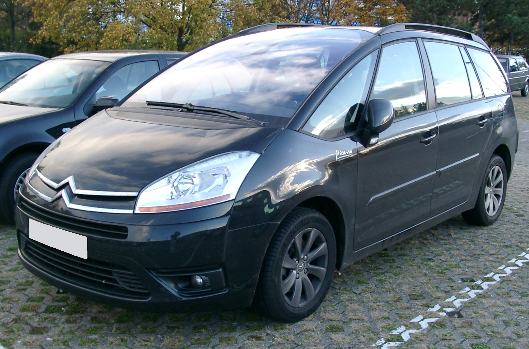 Citroën C4 Grand Picassol